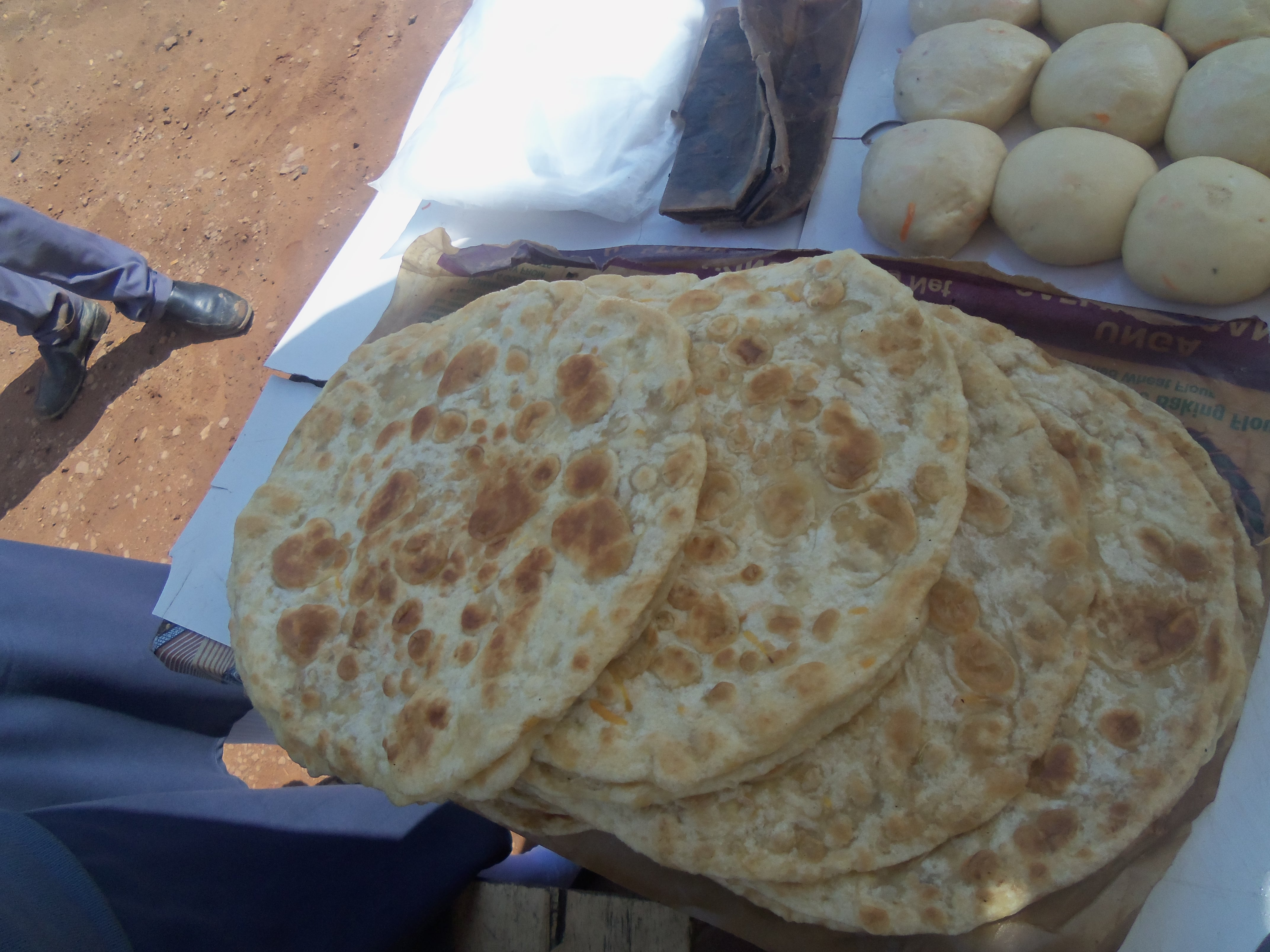 Rolex chapati in uganda This is an image of food from Uganda